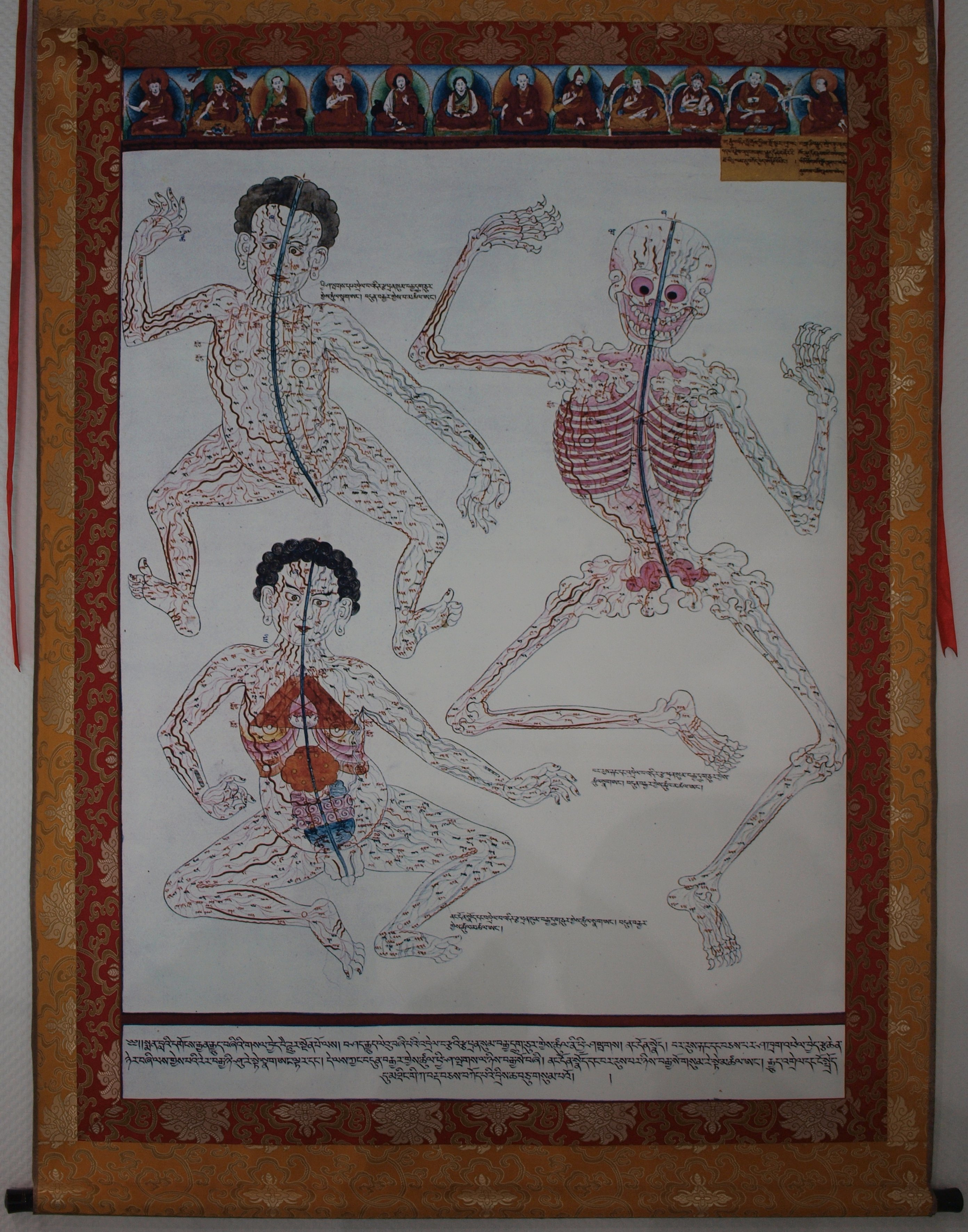 Traditional Tibetan Medicine Poster seen in China Science and Technology Museum, Beijing.